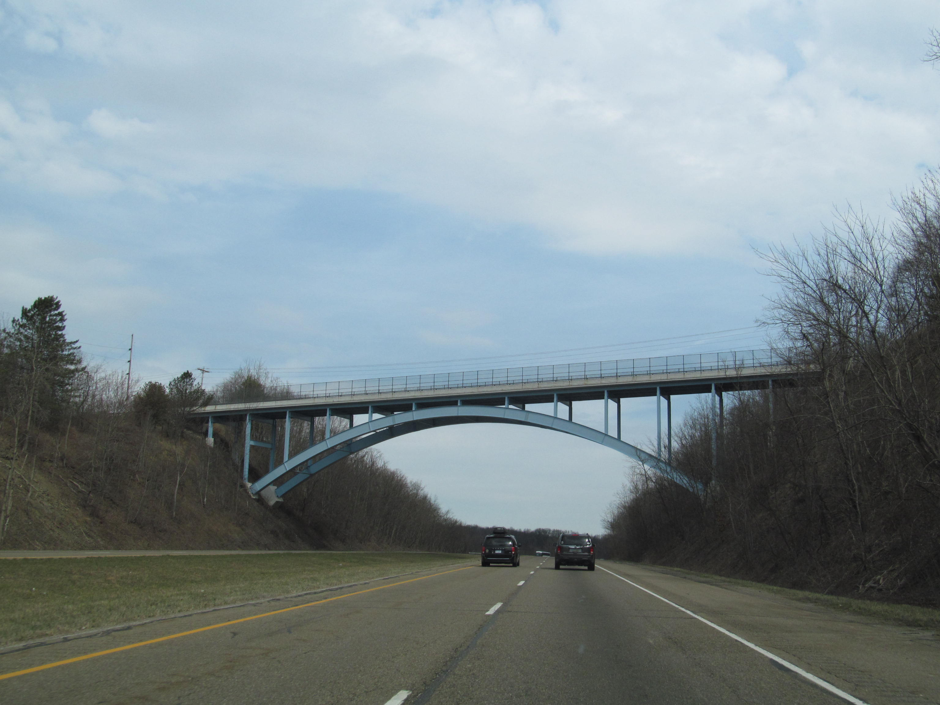 Stocker Ridge road in Tuscarawas County, Ohio passes over Interstate 77 on this arch bridge. Seen from south in northbound lanes.